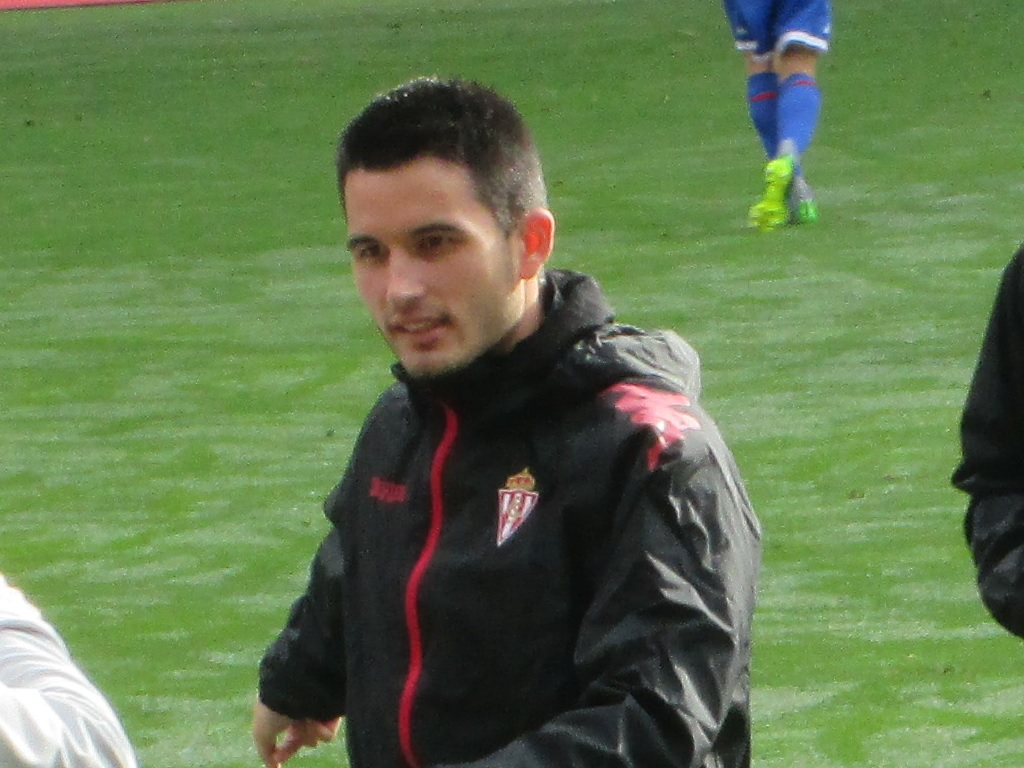 Isma López, in a warm up in the game of Sporting de Gijón vs Recreativo de Huelva